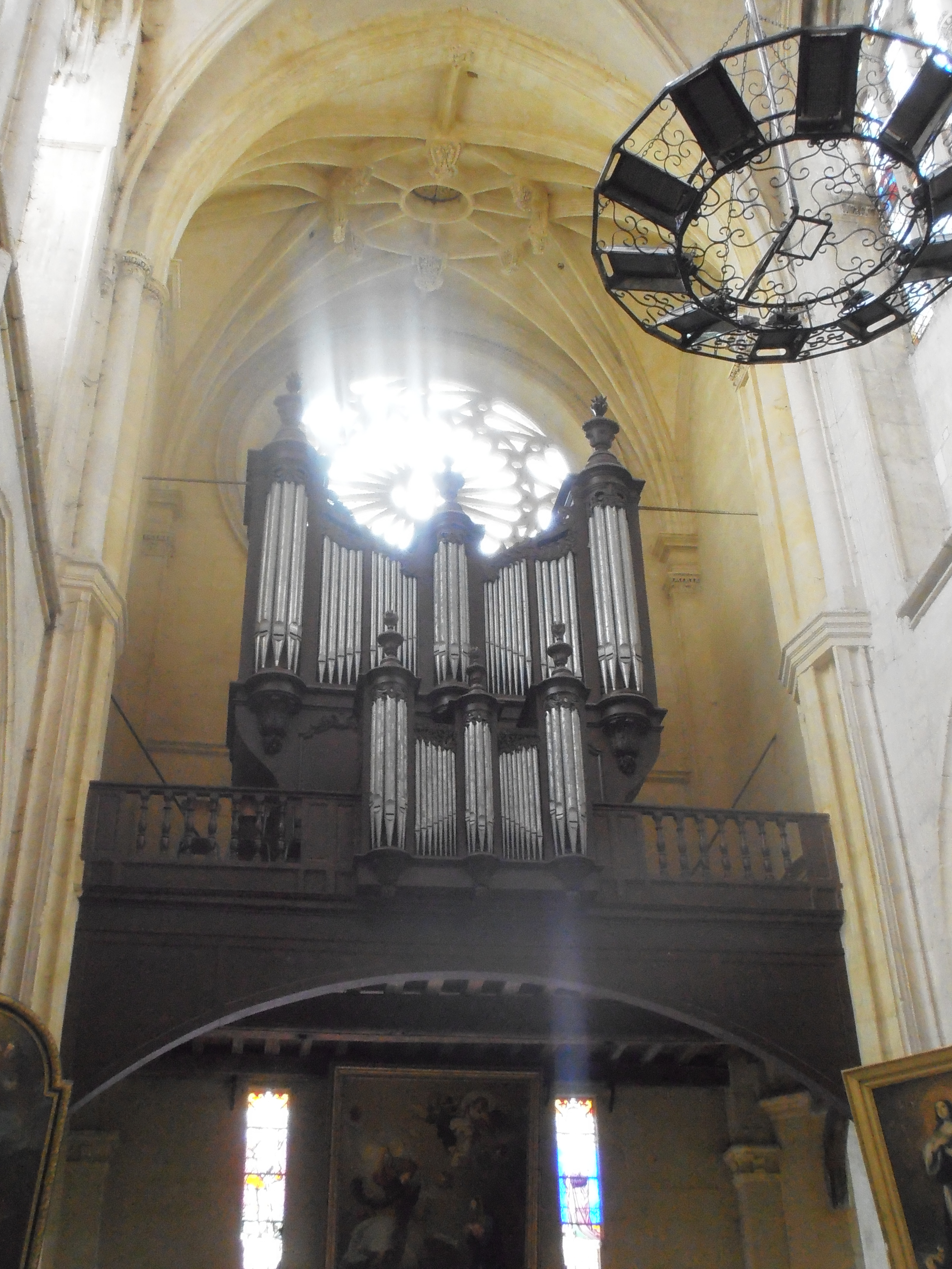 Villeneuve-sur-Yonne (Yonne, France), church of the Assumption of Our Lady, organ built by Marcellin Tribuot in 1737 & 1744, in a case of Sieur Gaumont, dorsal positive added in 1780, restored by Daniel Kern in 1998.